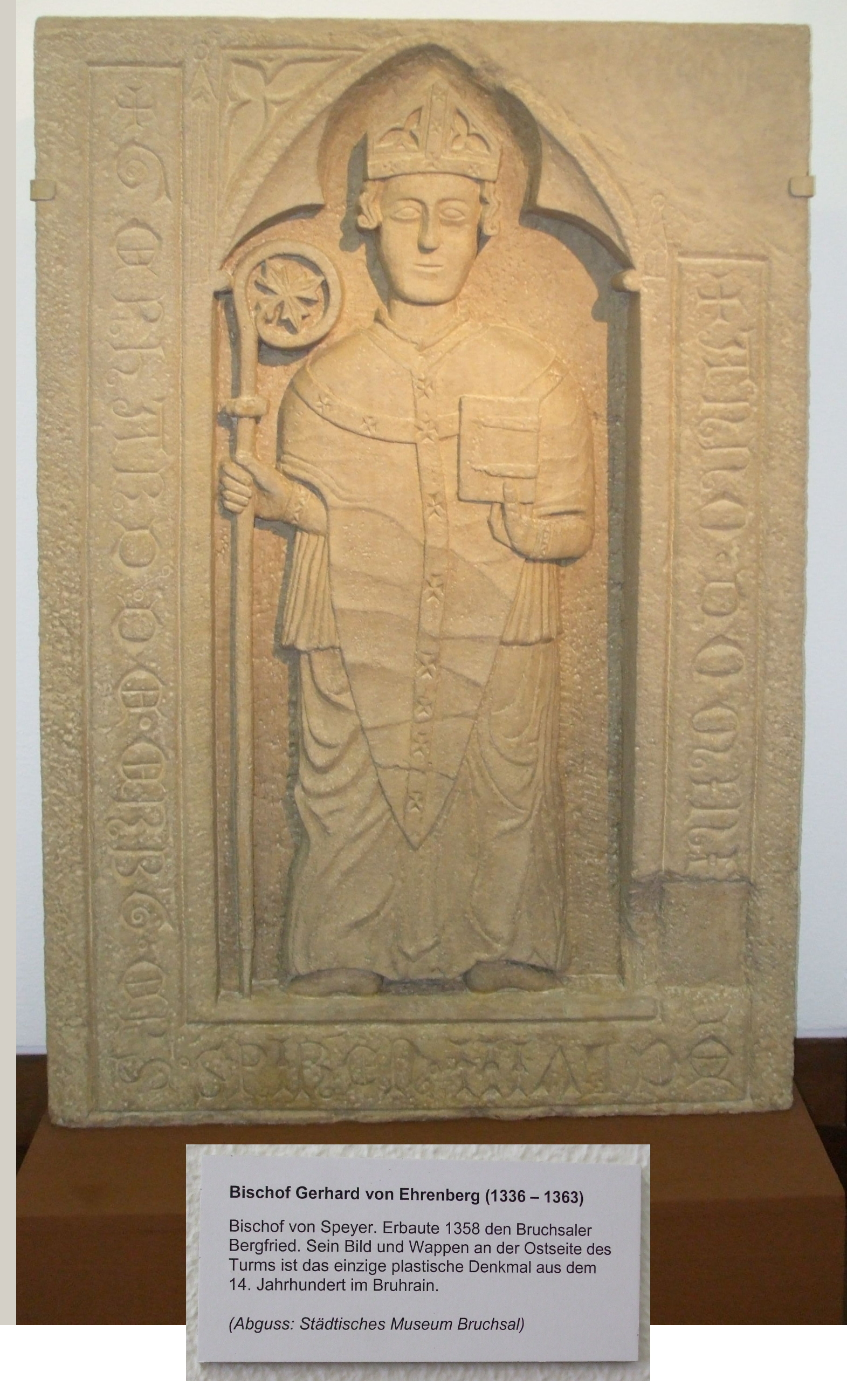 Bishop Gerhard von Ehrenberg *1336 +1363